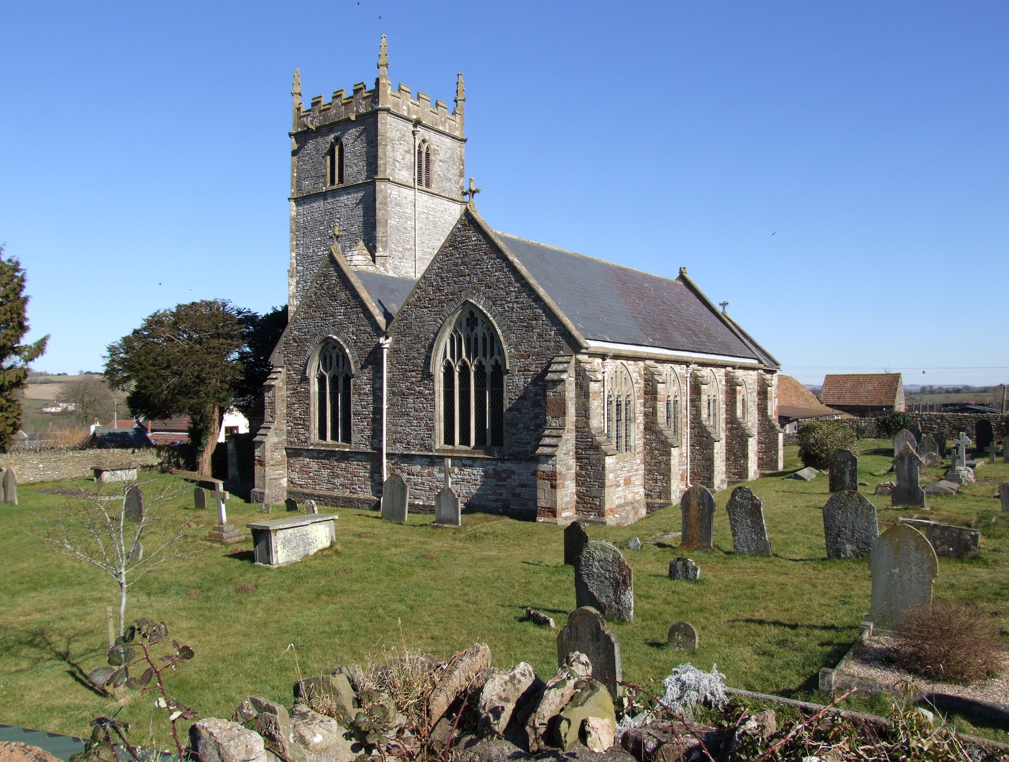 St Mary the Virgin Church, Stanton Drew, Somerset